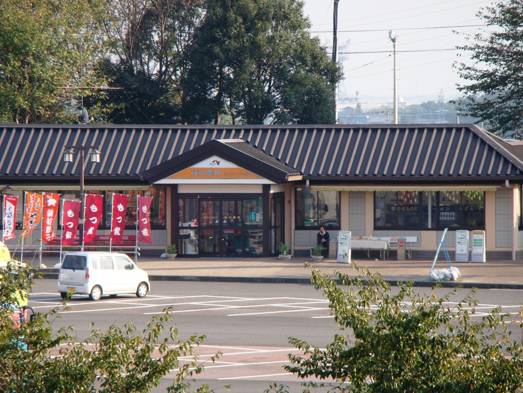 Enshu-toyoda parking area Tomei expressway Shizuoka Japan